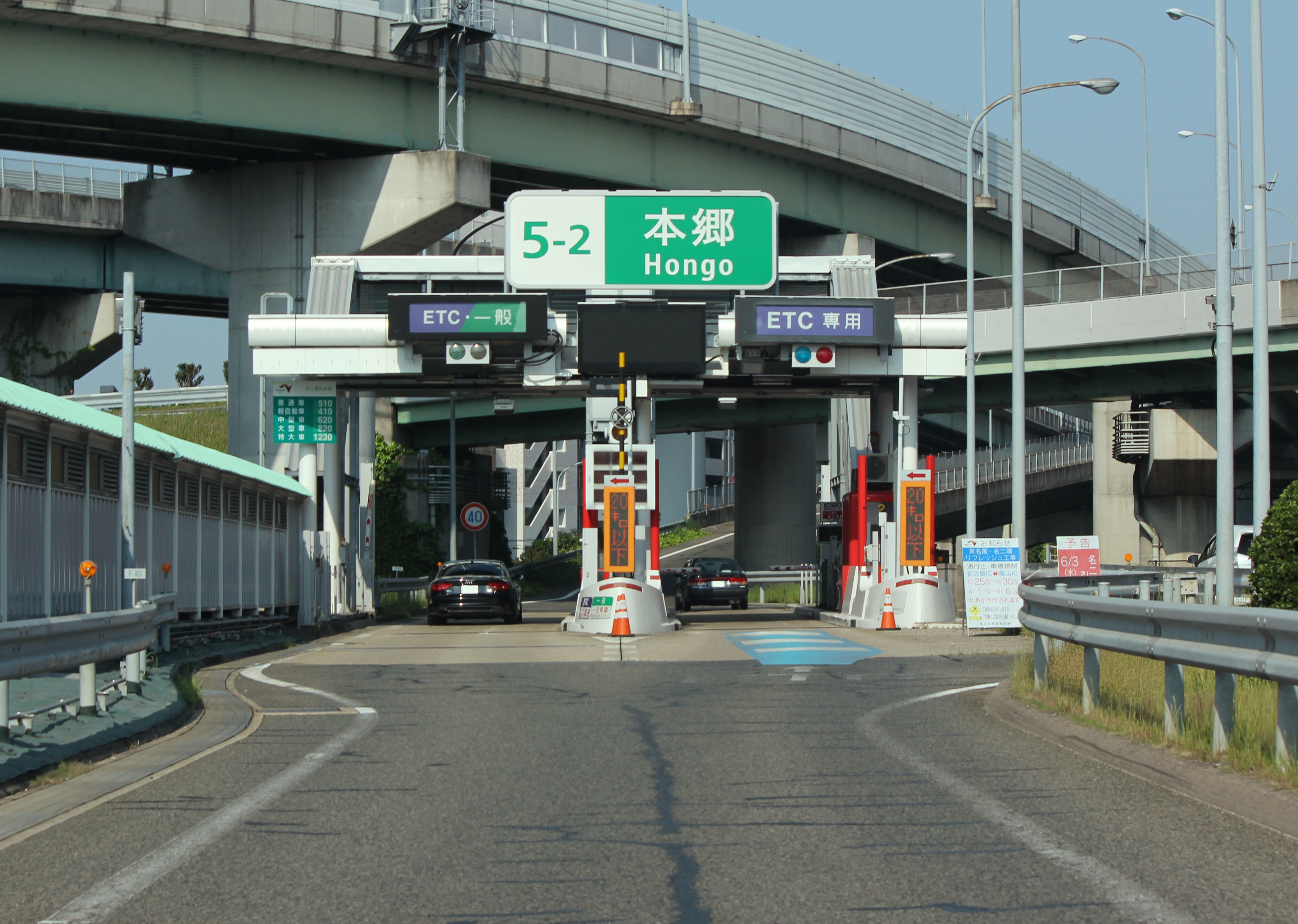 Hongo Interchange on the Nagoya-Daini-Kanjo (Meinikan) Expressway